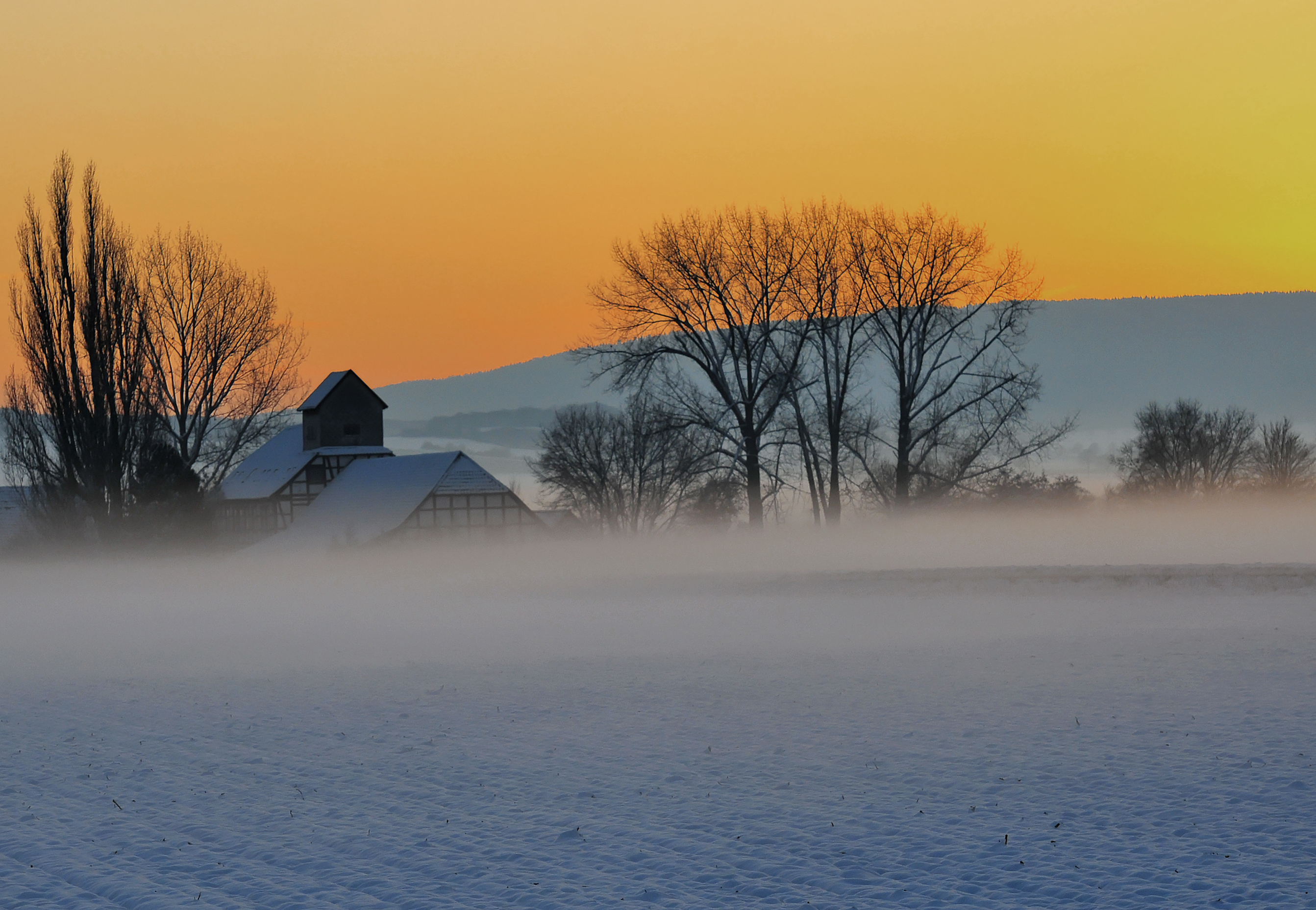 The "Rosenmühle" with mist and fog in the evening. The "Rosenmühle" on the river "Haller" is a former water mill in Adensen, Nordstemmen, Lower Saxony, Germany.